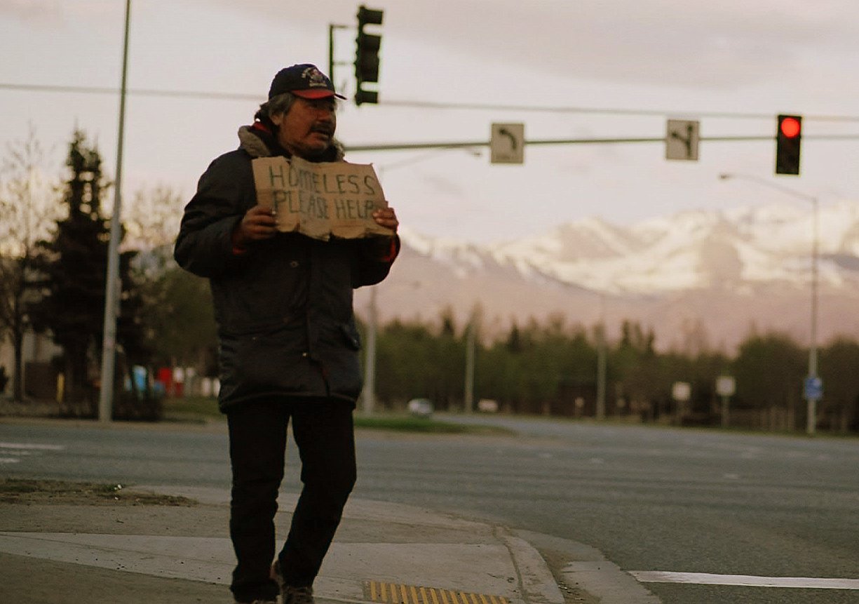 Homeless man in Anchorage, Alaskahomeless